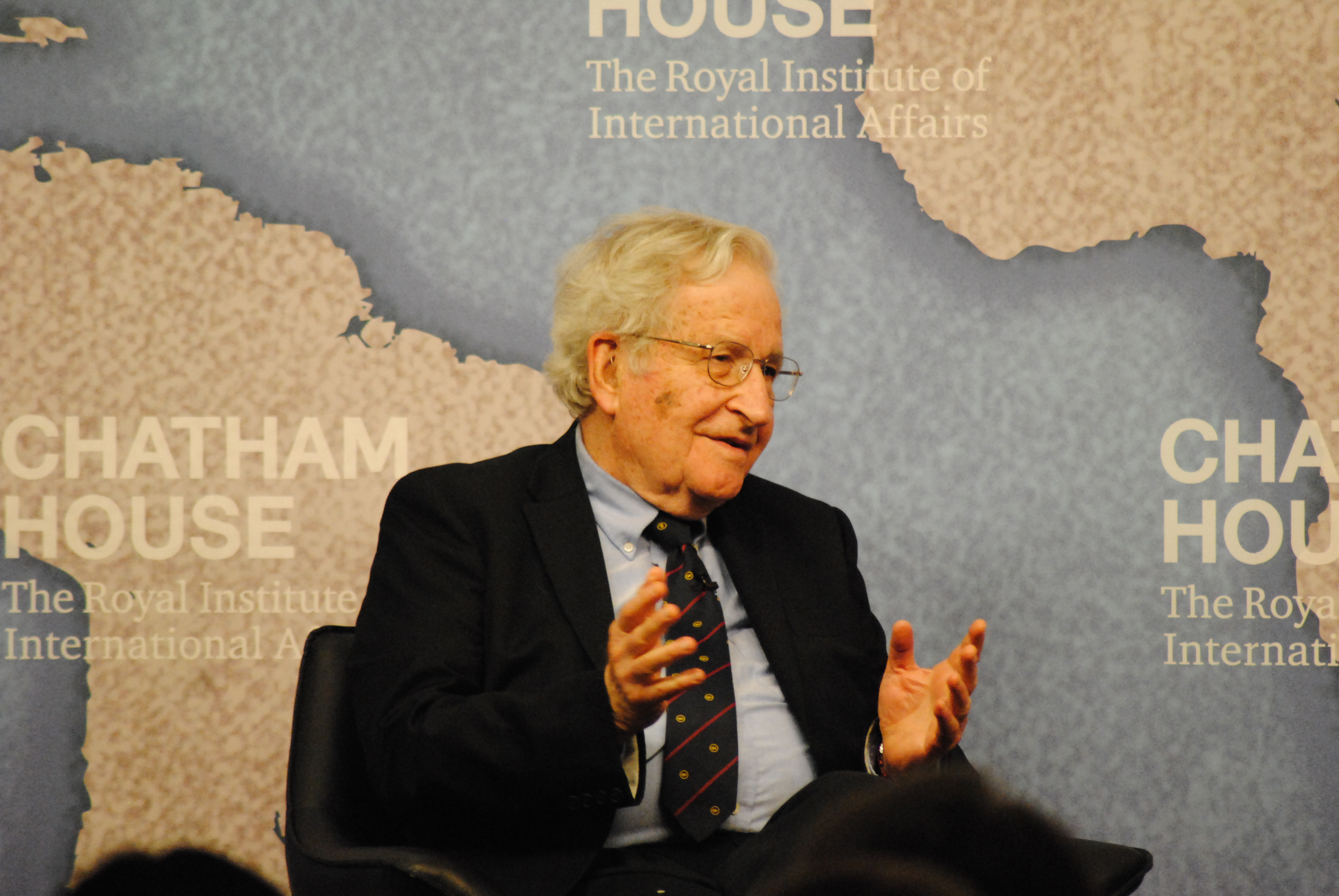 Rethinking US Foreign Policy, 19 May 2014 cht.hm/1o1MzNZ